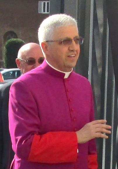 Bishop Of Lodi, Maurizio Malvestiti